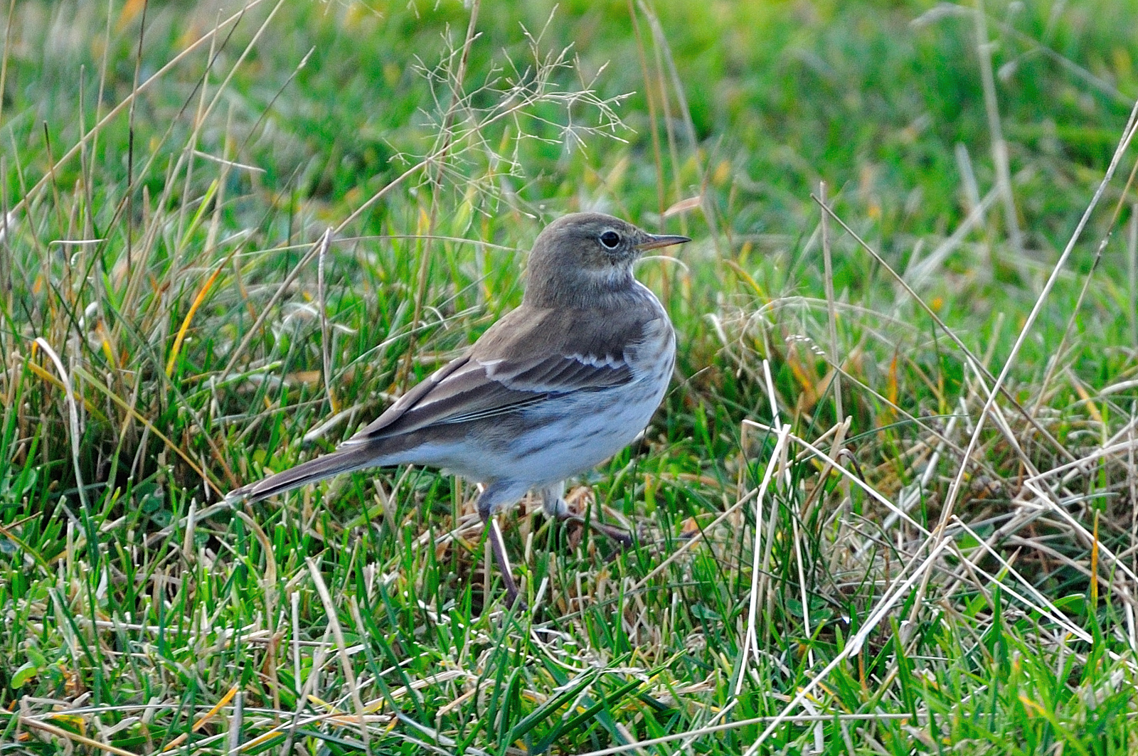 A Water Pipit Anthus spinoletta at Plateau de Beille, Ariege, Midi-Pyrenees, France.